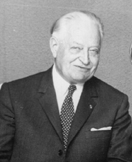 Israel Defense Forces